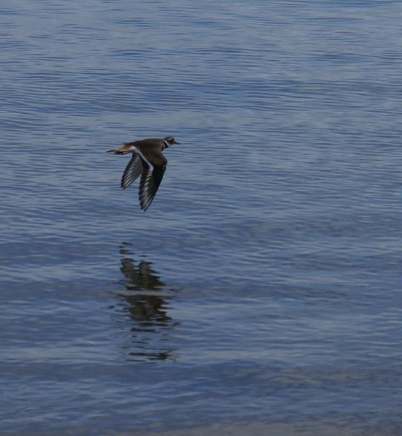 Charadrius vociferus in flight.